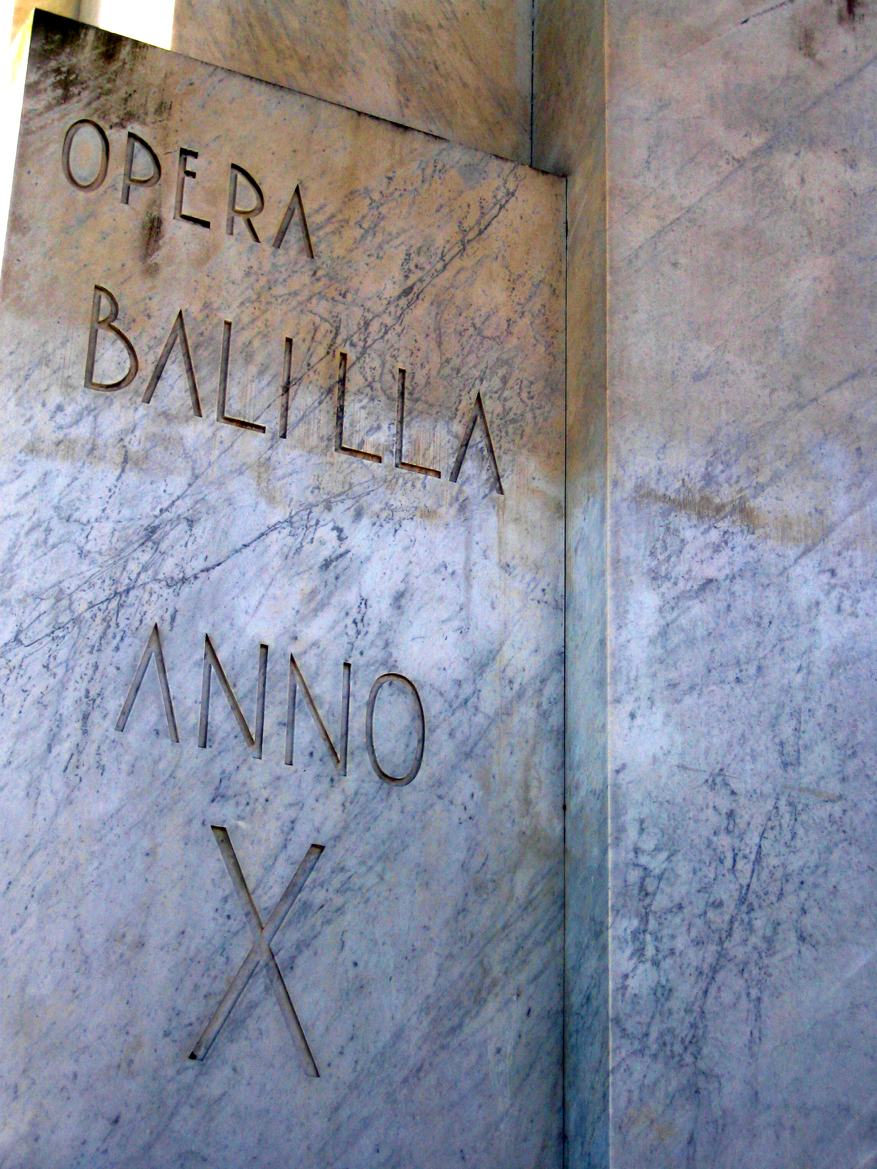 Work of the Balilla, the Italian Fascist Youth party, in the tenth year of the Fascist era (ie, 1932). The base of the Mussolini obelisk. Note the stylish capital A without the crossbar.